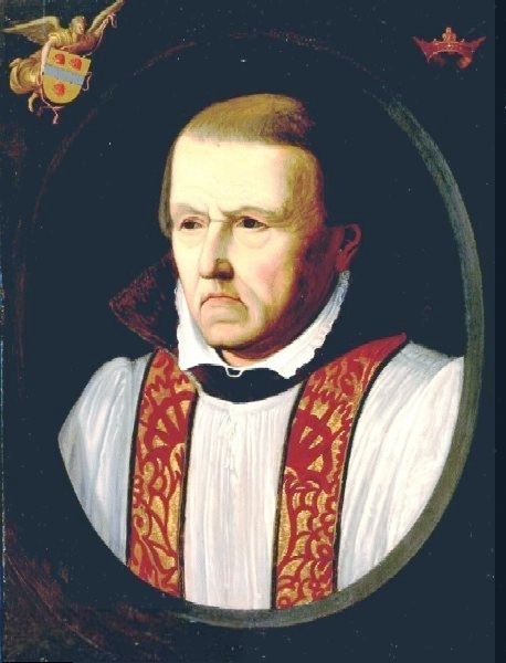 Bust, shown in priestly garb in oval, in the corners an angel with crest, the martyr's crown and Aet. 72 Anno 1572, in top is written Non Sine Christo